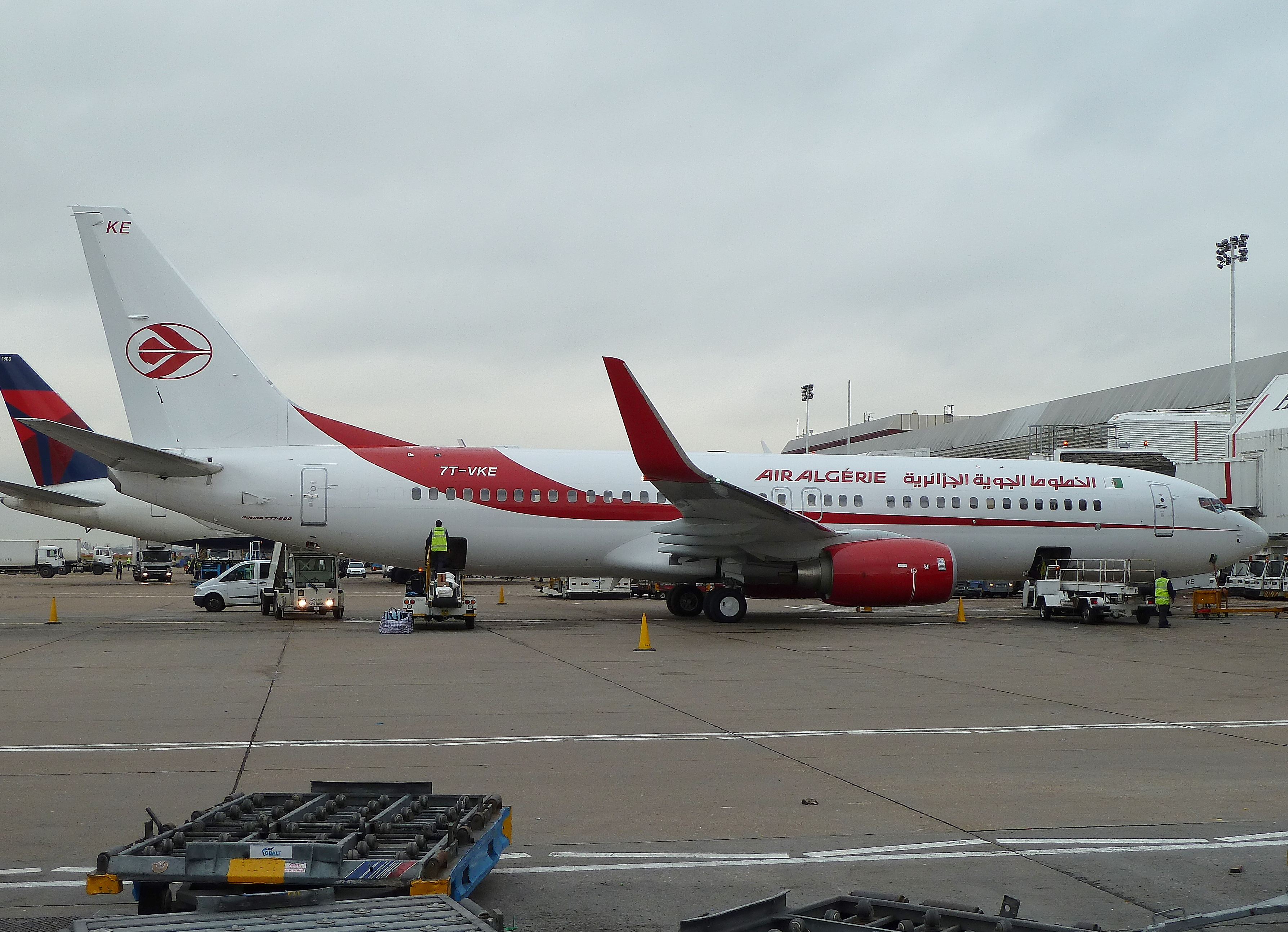 7T-VKE B738W Air Algerie on std 406 during its first visit.